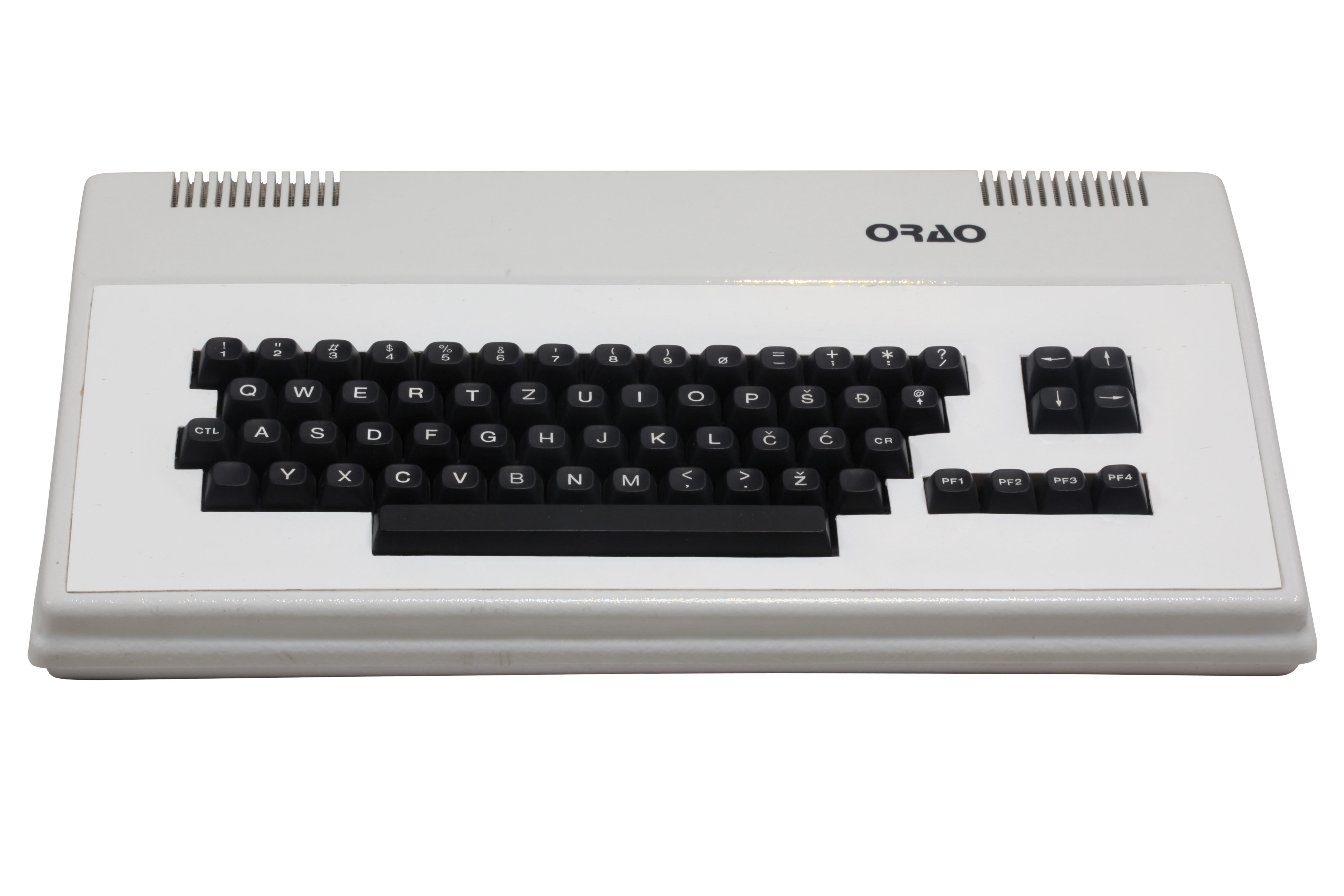 Orao computer. On display at the Musée Bolo, EPFL, Lausanne.